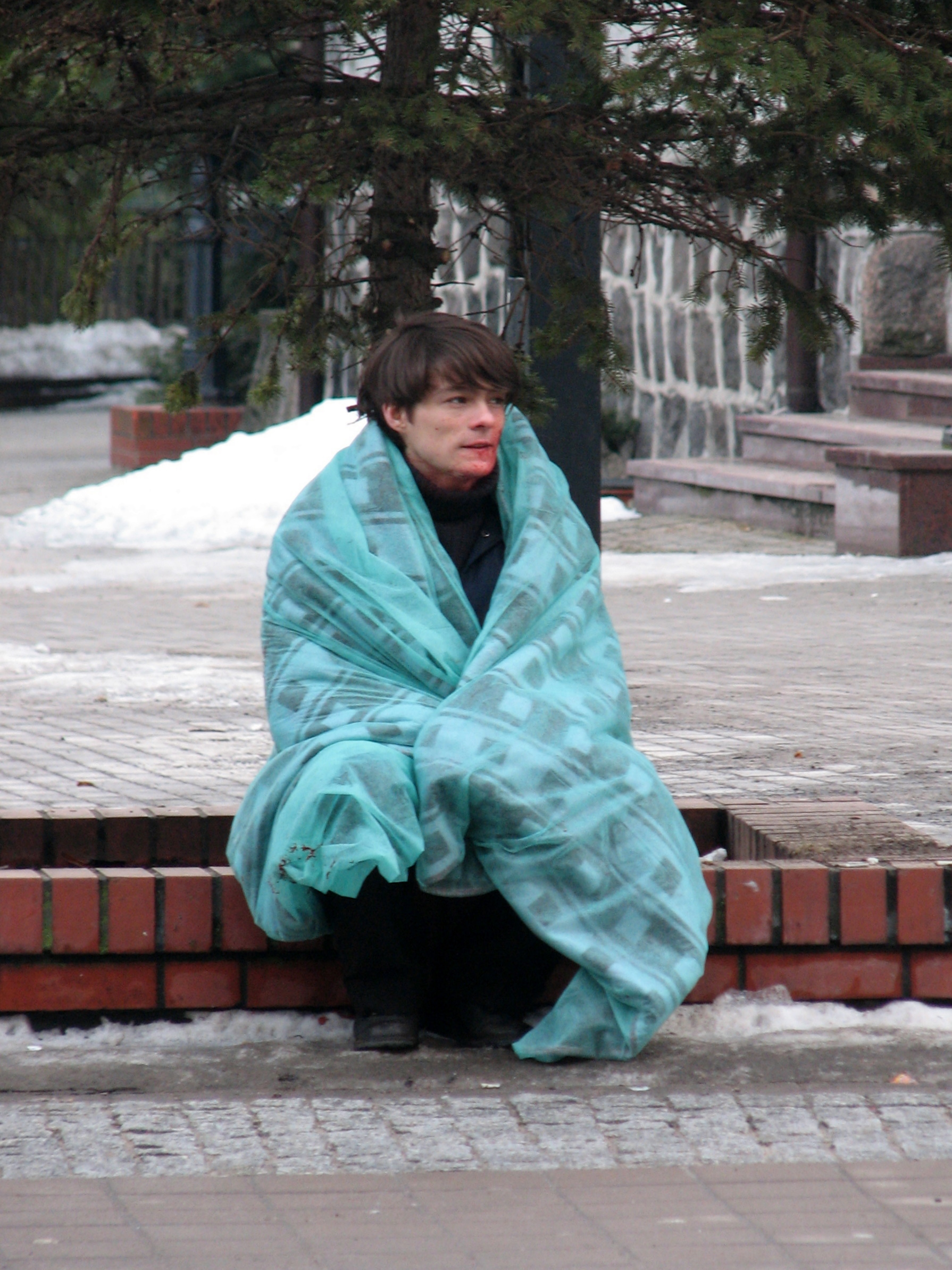 Filmmaking of "Black Thursday" on ulica Świętojańska in Gdynia. People on this picture were actors, background actors, other workers of film crew or workers of subcontractors. "Black Thursday" is film about Polish 1970 protests.